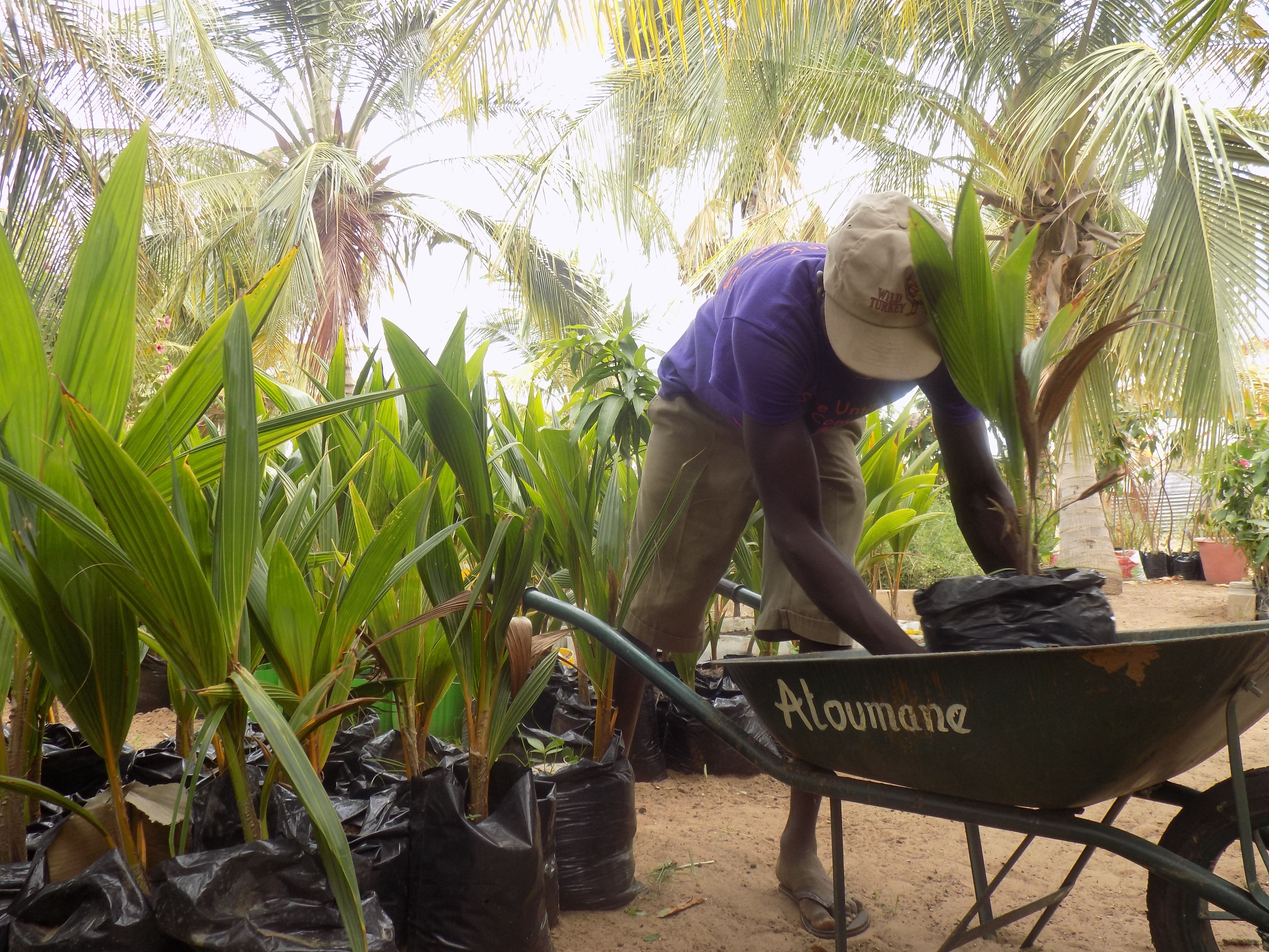 This is an image of "African people at work" from Senegal